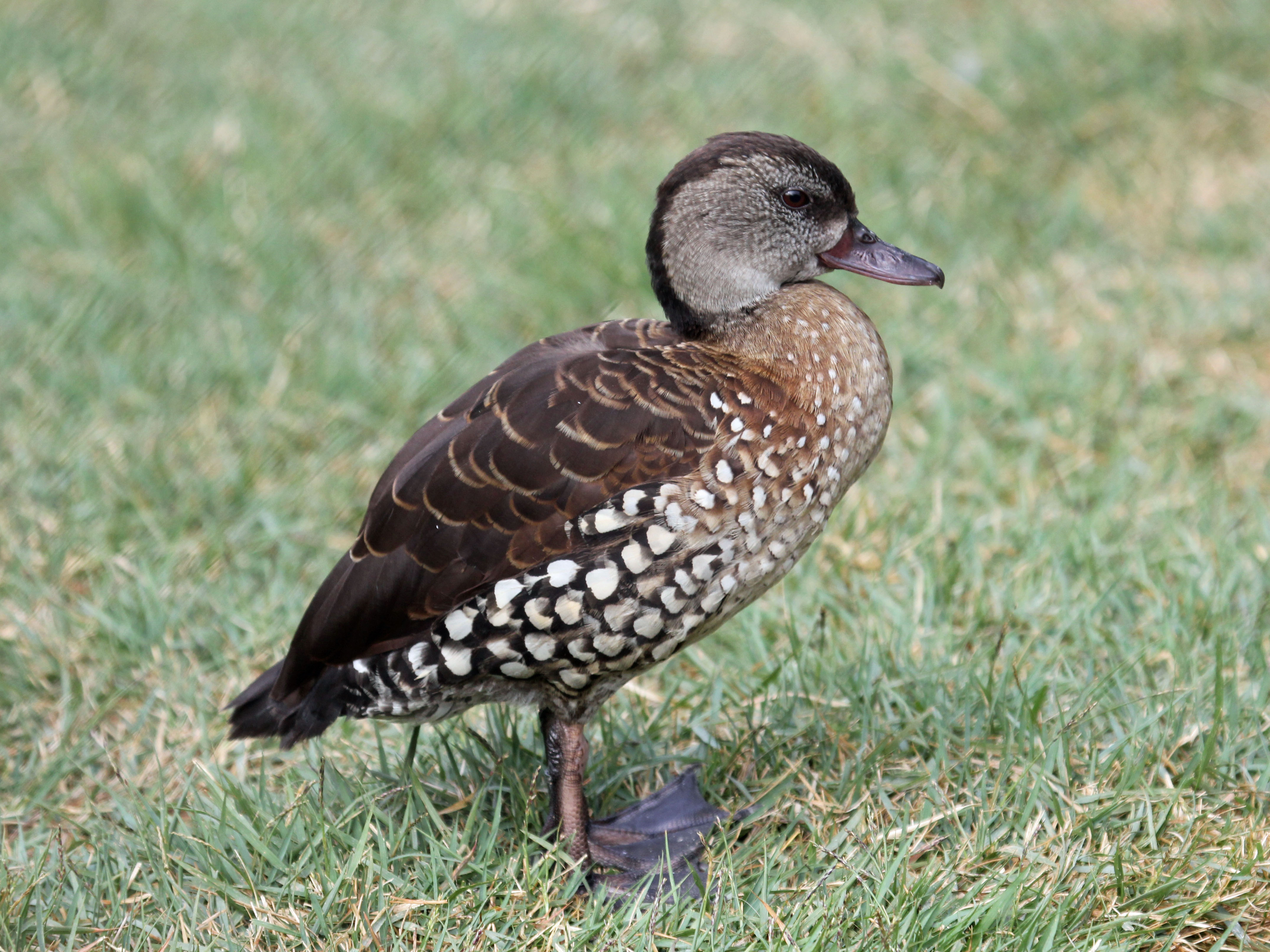 Spotted Whistling Duck (Dendrocygna guttata) - Sylvan Heights Waterfowl Park, North Carolina